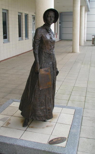 Ella Pirrie statue, Belfast City Hospital. Statue in the grounds of Belfast City Hospital (see 935083). Ella Pirrie was the first head nurse of the Belfast Infirmary, taking up the post in 1883. She had earlier trained as a nurse with Florence Nightingale (I think this would have been at the Nightingale Training School at St Thomas's Hospital, London). See also 3489873 for some related images.